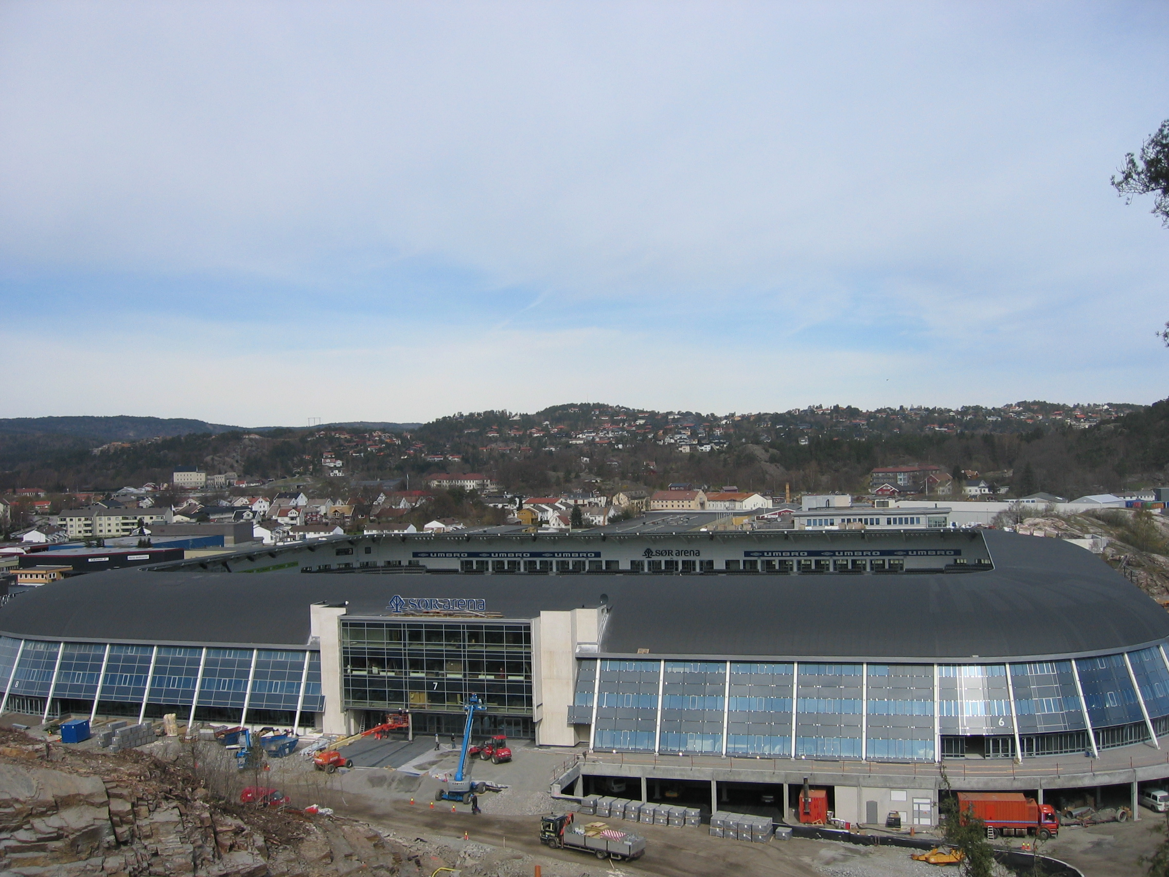 Sør Arena, the football stadium of IK Start, Kristiansand, Norway